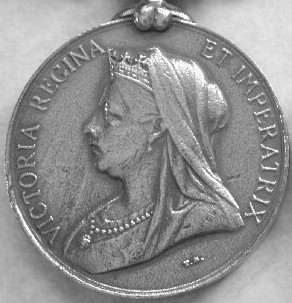 India Medal 1895 obverse for years 1895-1901